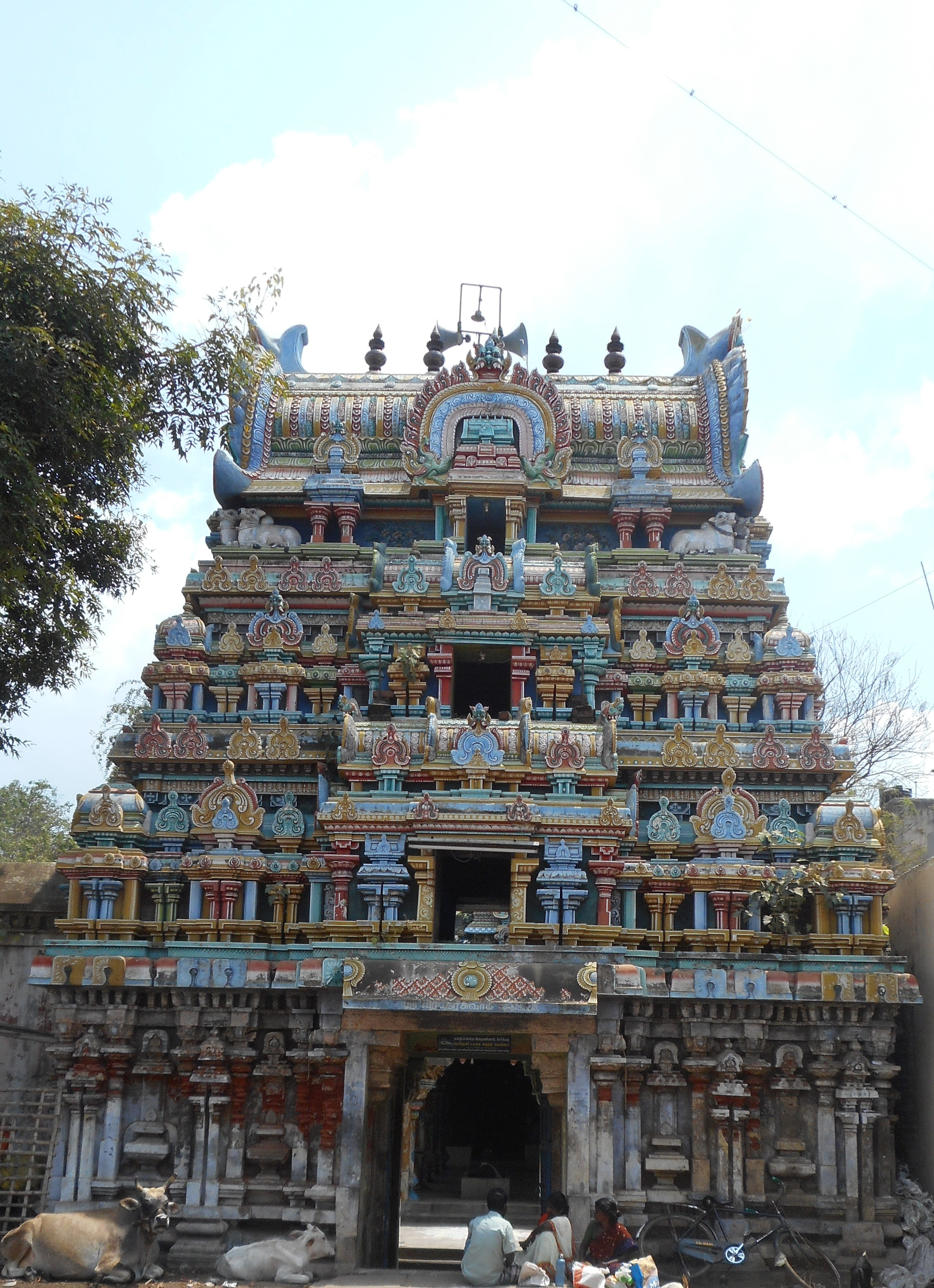 கும்பகோணம் வீரபத்திரர் கோயில்4